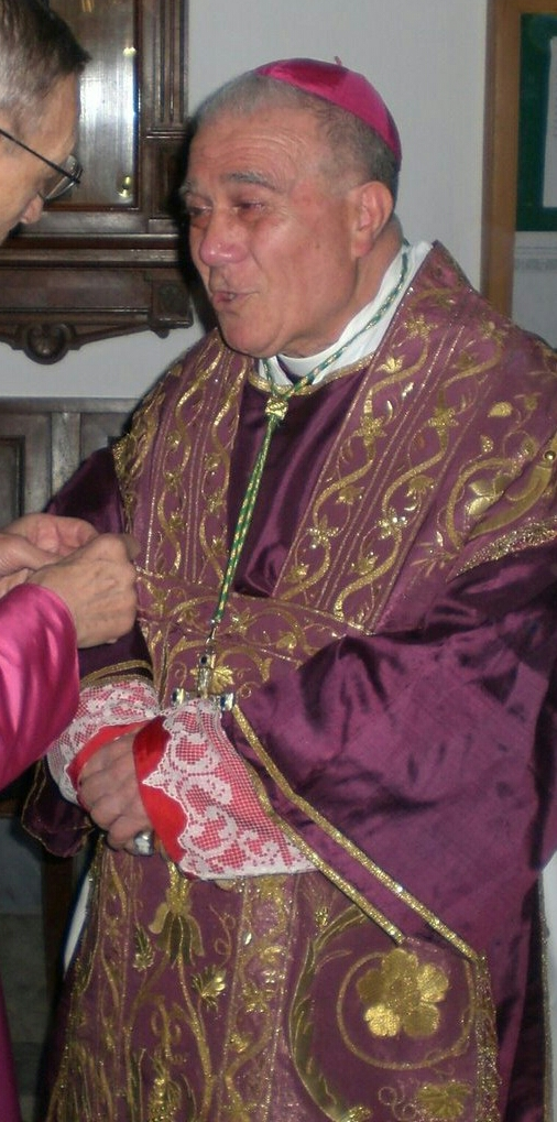 Arcivescovo Luigi De Magistris